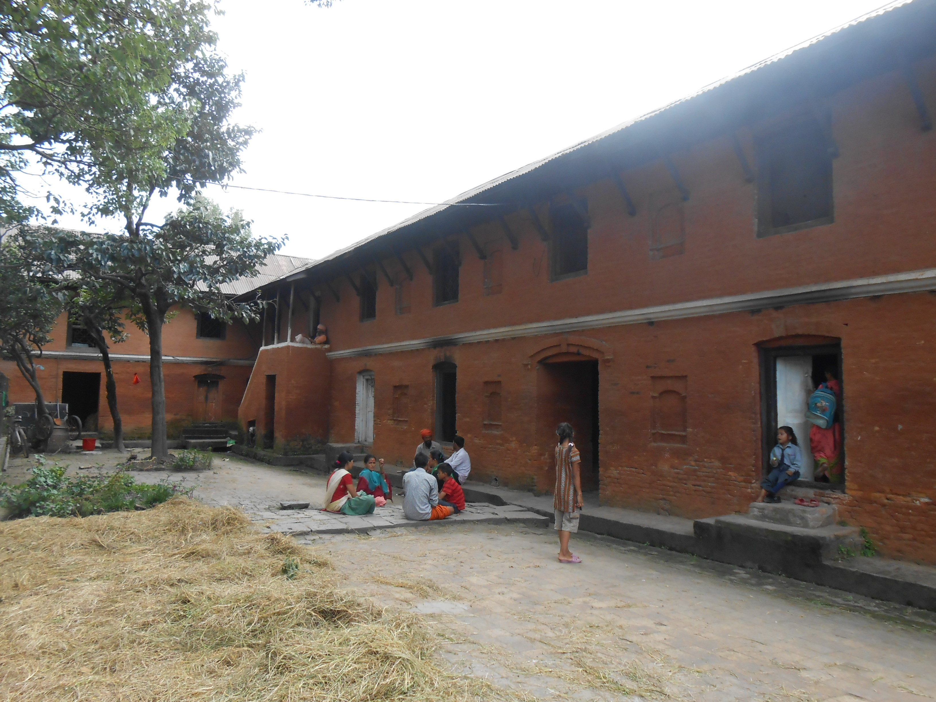 Dashnami Sanyashi Akhada